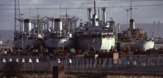 Able UK, Graythorpe, Hartlepool. This is the demolition yard of Able UK at Graythorpe near the nuclear power station and the titanium dioxide works. The four ships are from the so-called US "ghost fleet" and are the subject of considerable controversy. They arrived in late 2003 and environmentalists are blocking their demolition. Visible are (l-r): USS Caloosahatchee (AO-98), USS Canisteo (AO-99), USS Canopus (AS-34), and USS Compass Island (AG-153).